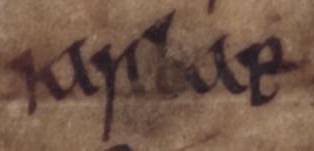 An excerpt from folio 14v of Oxford Bodleian Library MS Rawlinson B 503 (the Annals of Inisfallen). The excerpt shows the title of Tomrair (died 848), a Viking commander slain battling the Irish in 848.